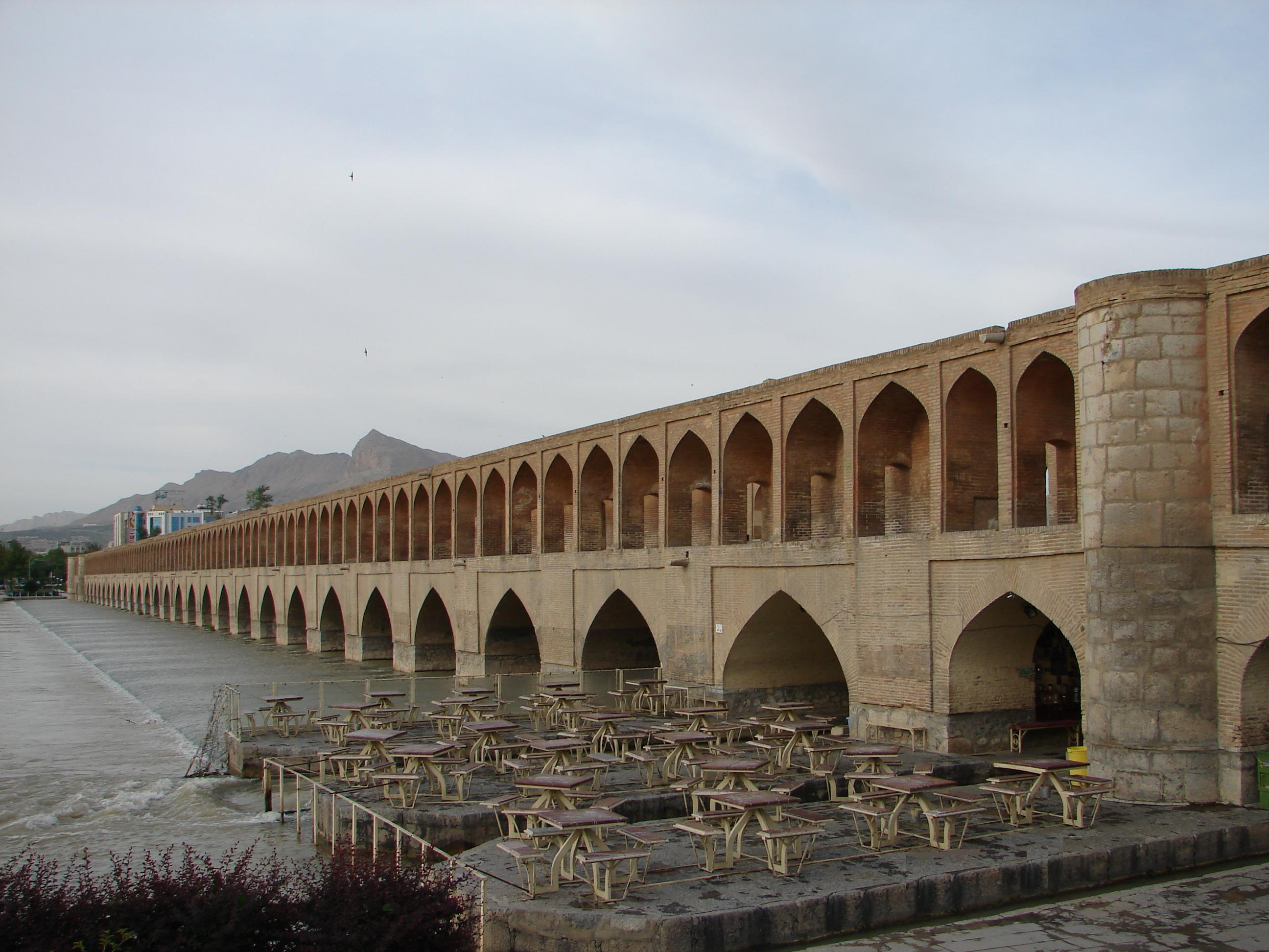 33 pol - Esfahan